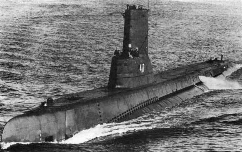 The U.S. Navy submarine USS Tench (SS-417) underway after her Guppy IA conversion, 1965.